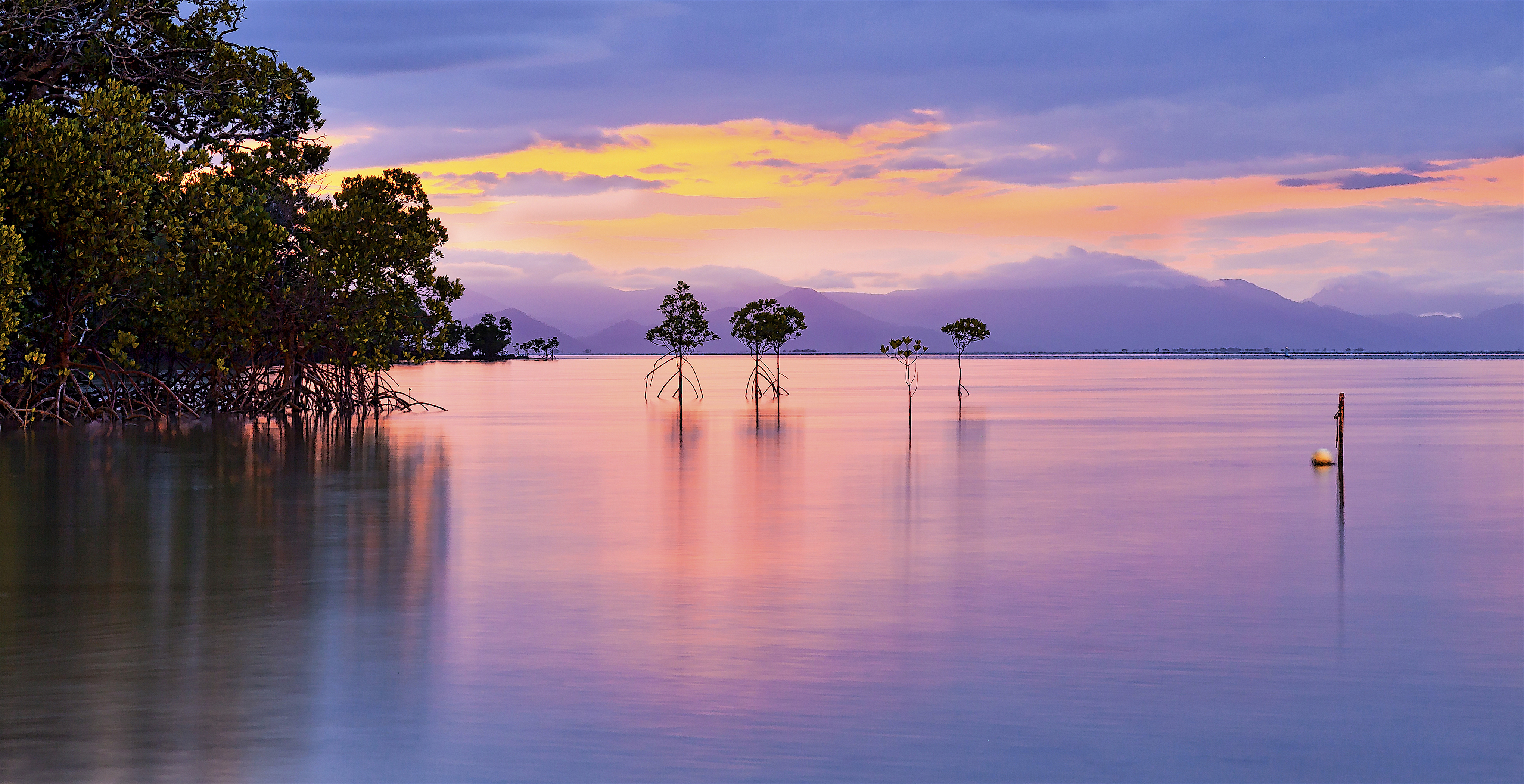 Sunset from the shore on Orpheus Island National Park- James Cook University Research Station. Orpheus Island is part of the Palm Islands and within the Great Barrier Reef World Heritage Area